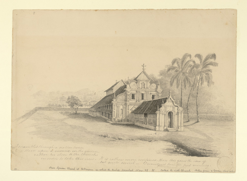 Syrian church at Kottayam, Travancore State Artist: Bateman1835